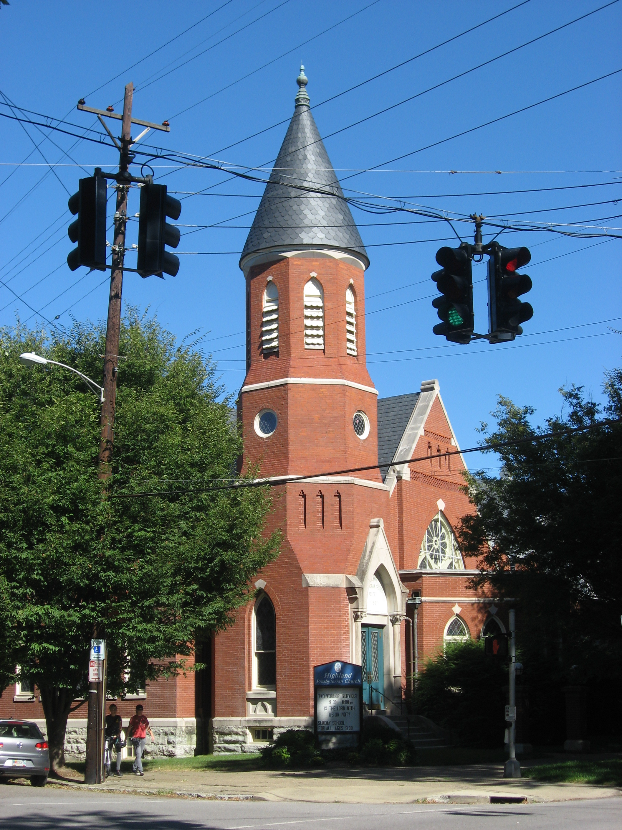 Front of the Highlands Presbyterian Church, located on the eastern corner of the junction of Highland Avenue and Cherokee Road in Louisville, Kentucky, United States. Built in 1887, the church is a part of the Cherokee Triangle Area Residential District, a historic district that is listed on the National Register of Historic Places.